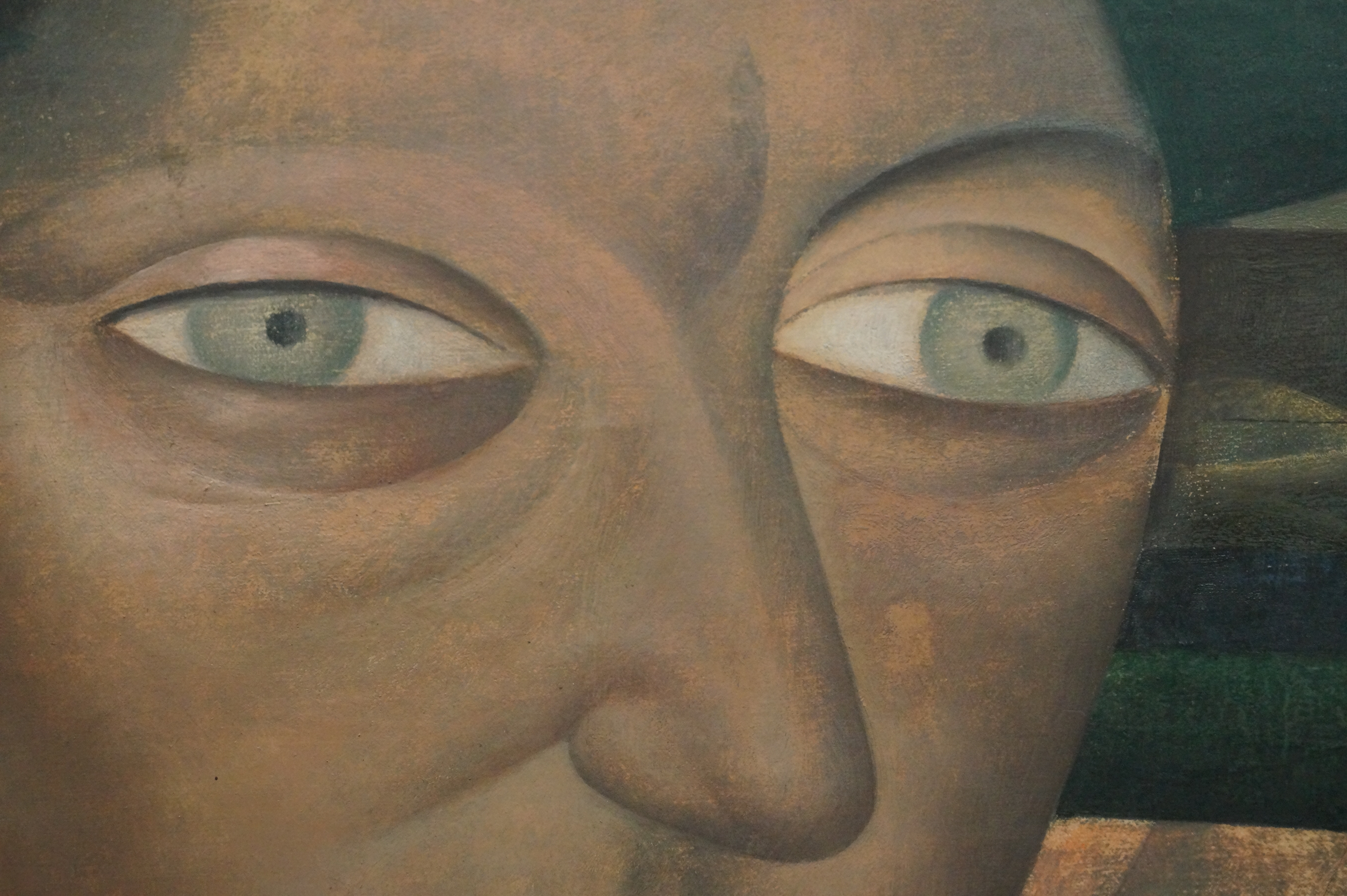 Gustave Van De Woestyne (Gent 1881 -Ukkel 1947) - Fuga (detail) This is a file created at the museum: Museum of Fine Arts in Ghent Wikidata has entry Q2519247 with data related to this item.